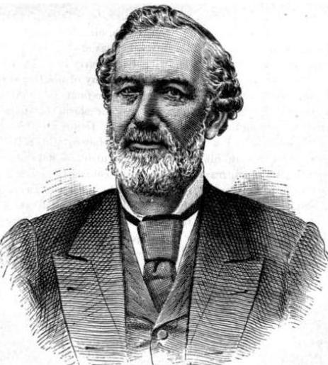 James Mosgrove, US Representative from Pennsylvania